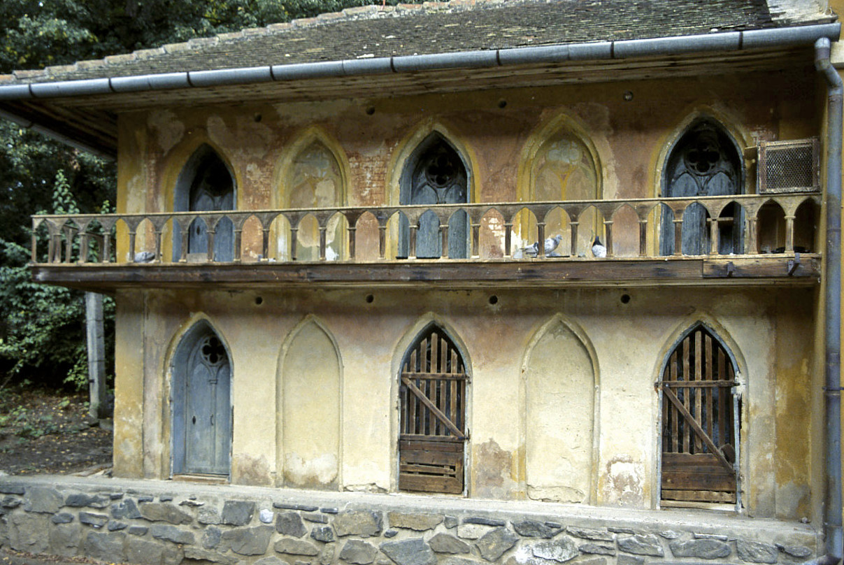 Castle of Rájec nad Svitavou, Okres Blansko, Czech Republic - pigeons' house in "rococo-gothic" (1765)